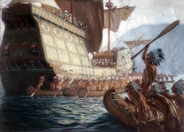 arrival of Samuel de Champlain on the future site of Quebec City, 1608